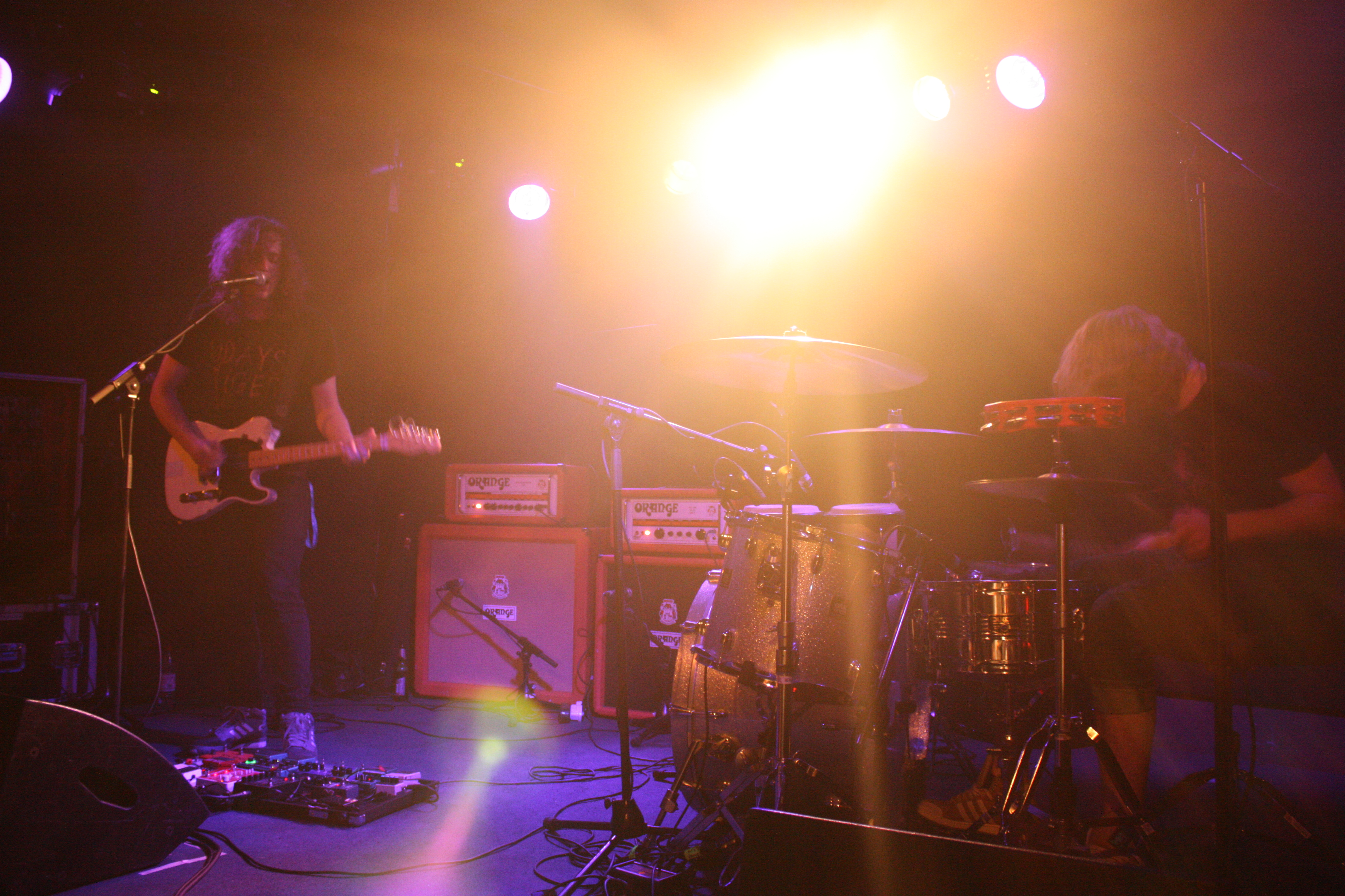 DZ Deathrays performing at Comet Club in Berlin in 2011